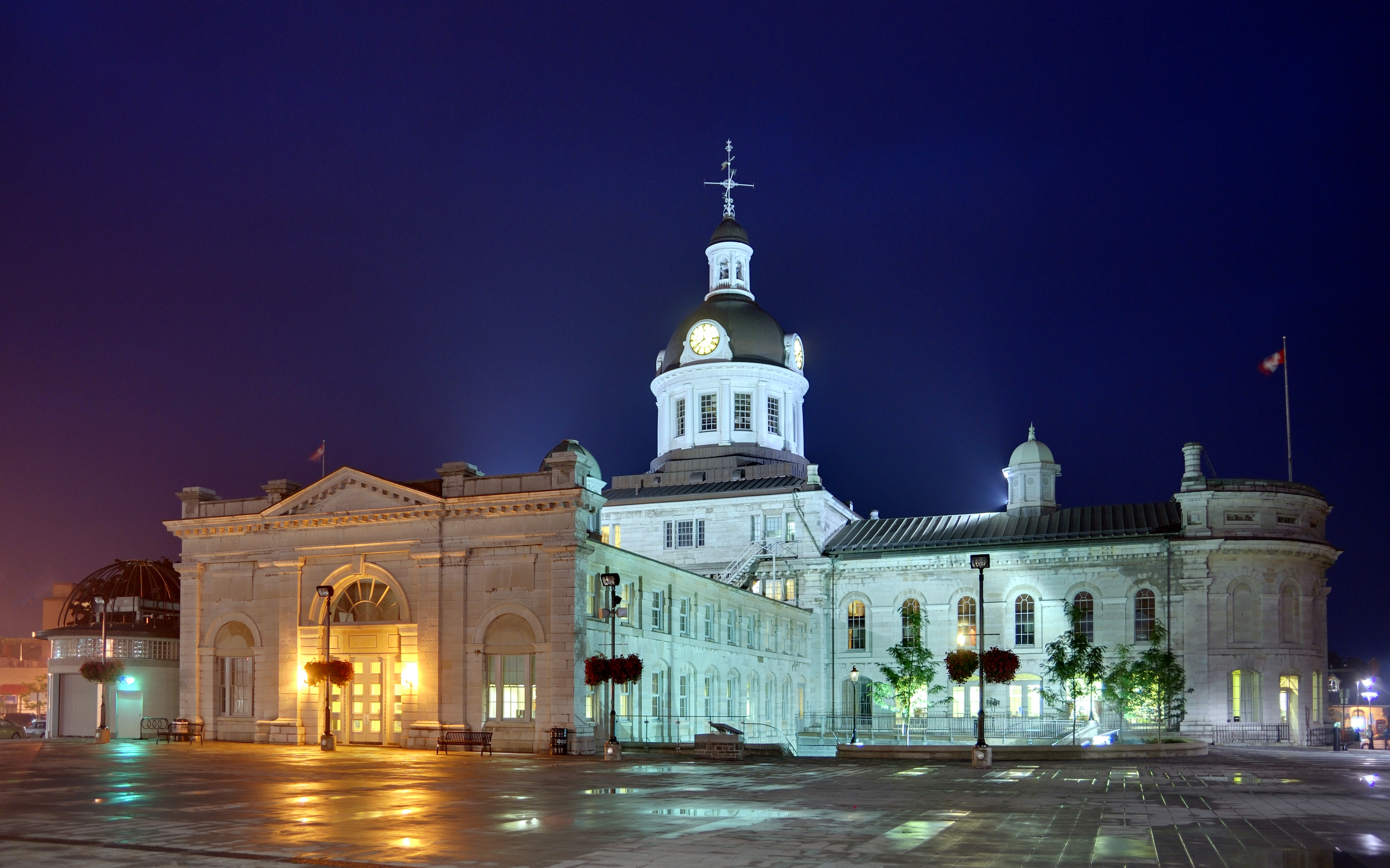 Kingston: Town hall